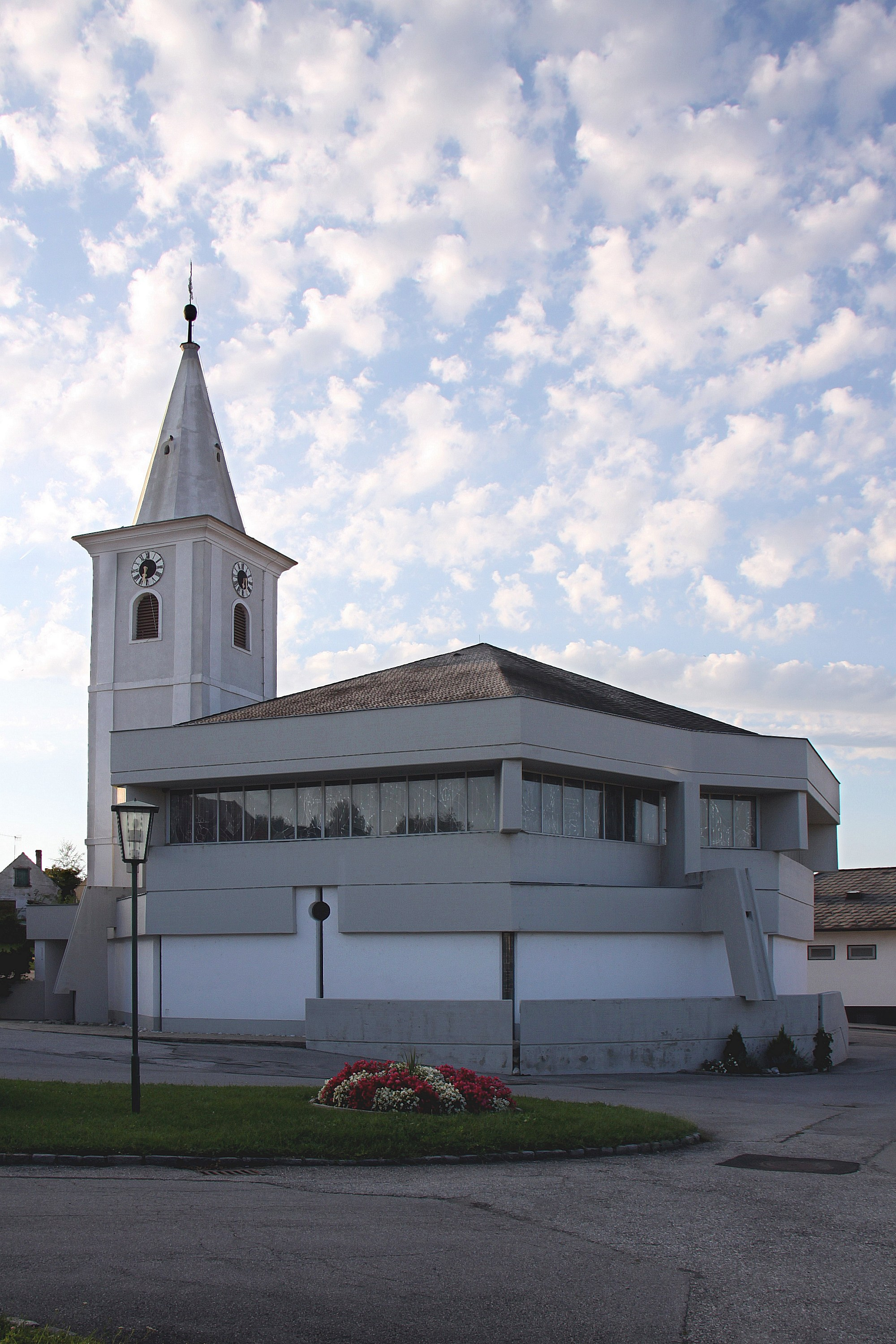 Parish church holy Jakob - Klingenbach. Object location47° 45′ 14.27″ N, 16° 32′ 21″ E